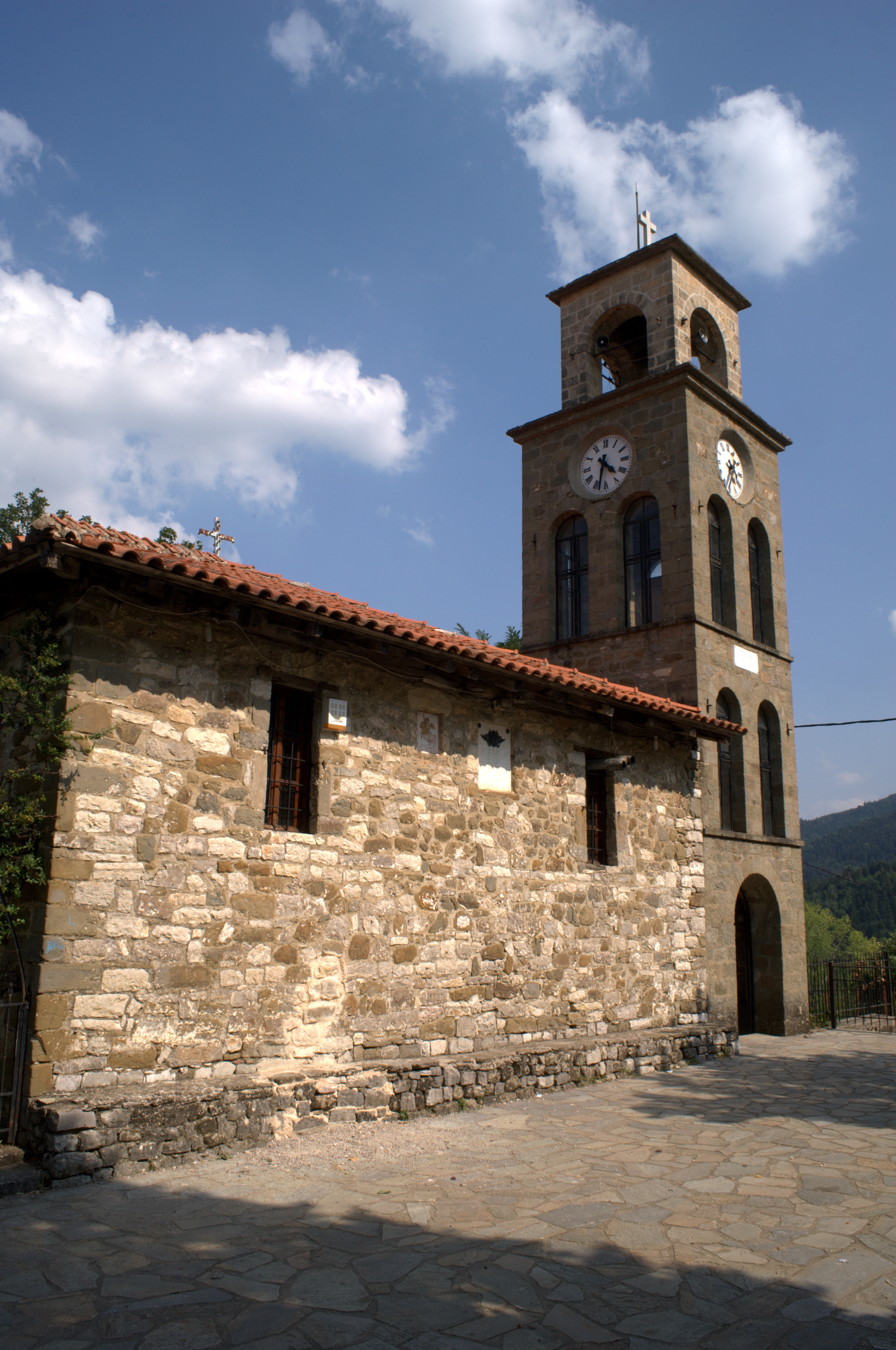 Mavrilo village, Agios Dimitrios Post-byzantine orthodox church, Fthiotida, Greece.